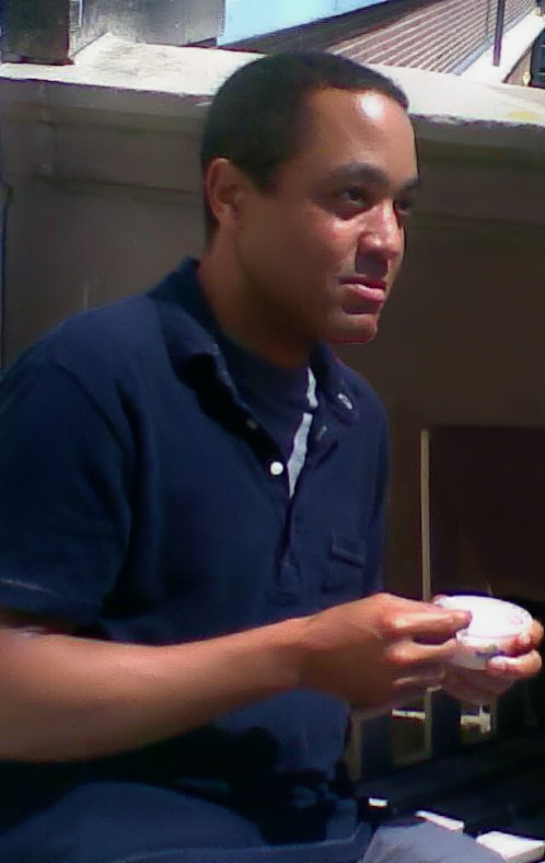 John McWhorter at the ISMIL conference in Leiden